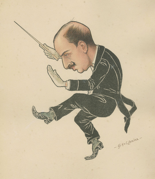 Caricature of Riccardo Eugenio Drigo (1846-1930). Chef d'orchestre of the St. Petersburg Imperial Italian Opera (1878-1884); Kapellmeister of the St. Petersburg Imperial Ballet (1878-1917); Chef d'orchestre of the St. Petersburg Imperial Mariinsky Theatre Orchestra (1886-1917). Noted composer of ballet music, conductor, and pianist.